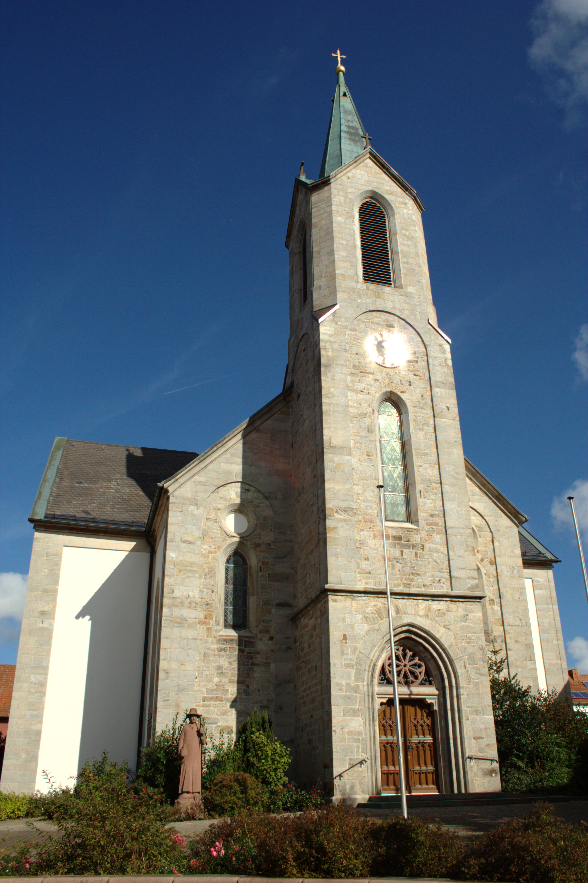 St. Jakobus church in Thalau Ebersburg